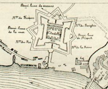 Plan de Bayonne par Vauban en 1680 : Détail de la Citadelle de Bayonne (Inscrit) .